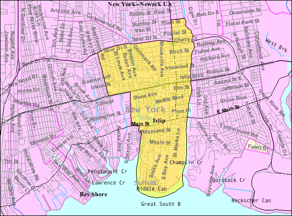 U.S. Census 2000 reference map for Islip